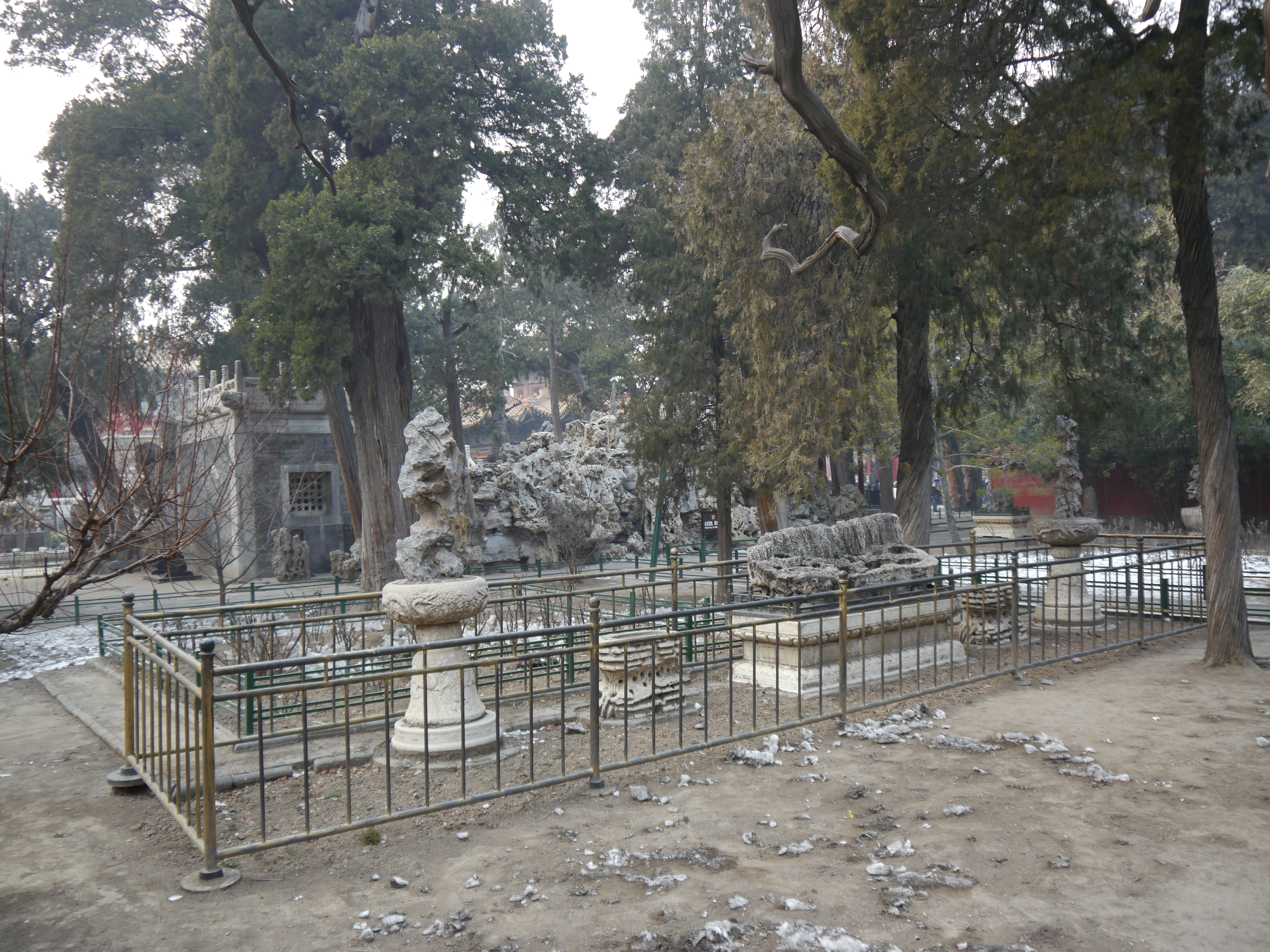 China, Beijing, Forbidden City.